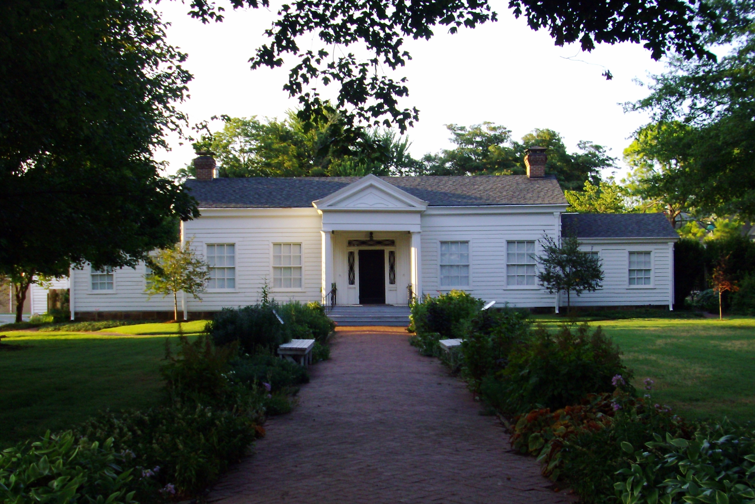 Headquarters House, Fayetteville, Arkansas. Saw action in the Civil War, now serves as a museum.